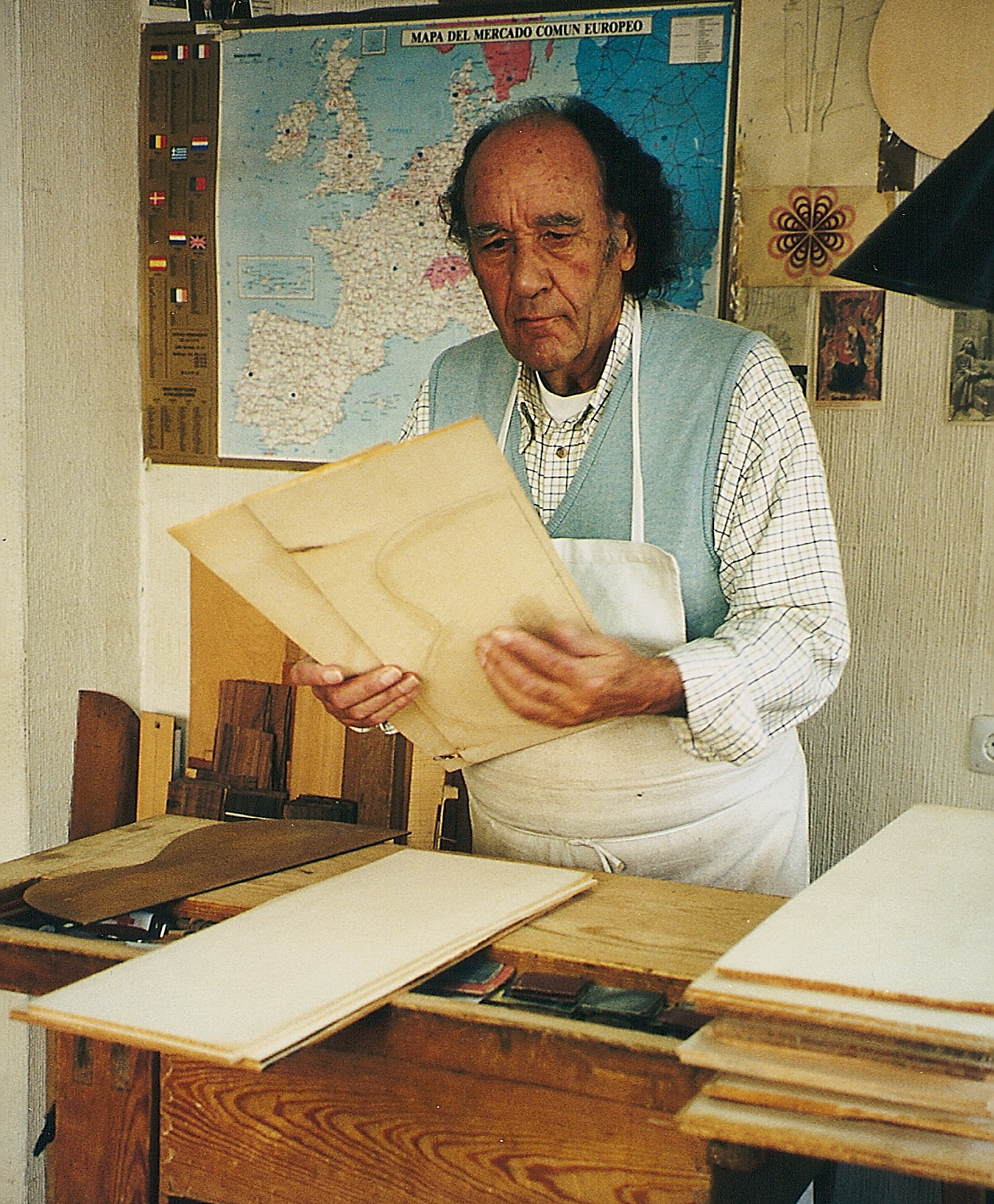 Der spanische Gitarrenbauer Paulino Bernabe (Senior) in his workshop in Madrid (Spain), October 2000. Der spanische Gitarrenbauer Paulino Bernabe (Vater) in seiner Werkstatt in madrid (Spanien), Oktober 2000.